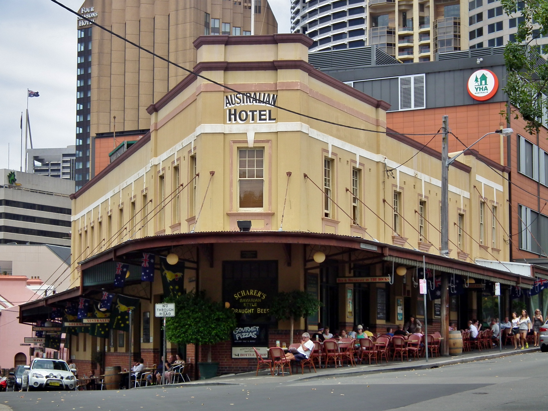 Australian Hotel - The Rocks NSW. The current building was erected in 1913, but the name dates to a previous building from 1824. When liquor licences became compulsory in 1830 the Australian was granted licence number 2. Located on the corner of Cumberland and Gloucester Streets, The Rocks NSW. .au/2011/03/30/sydneys-oldest-pub/